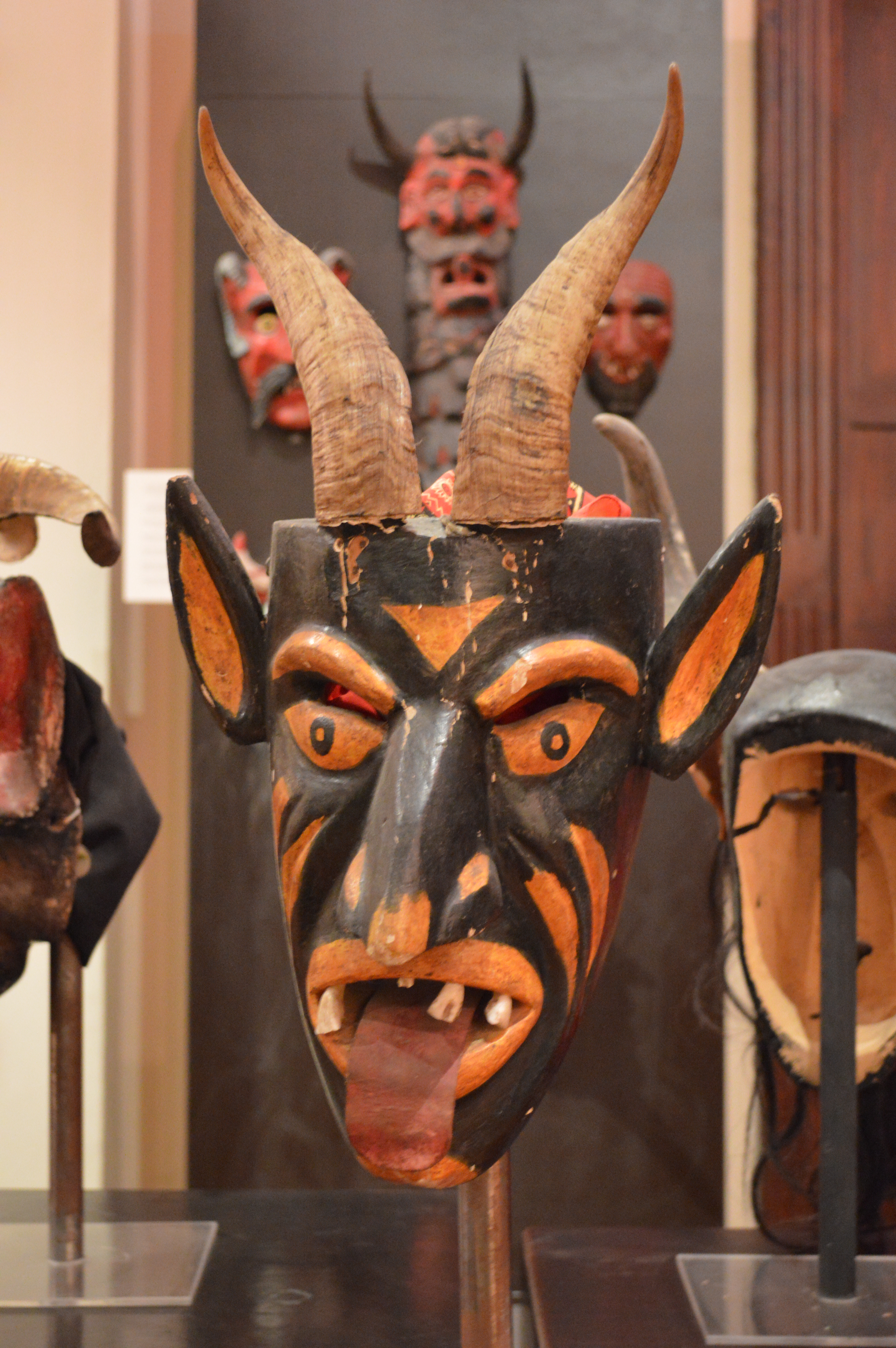 Devils mask for the Dance of the Devils in Ixcateopan, Guerrero at the Museo Nacional de la Mascara in San Luis Potosi, Mexico